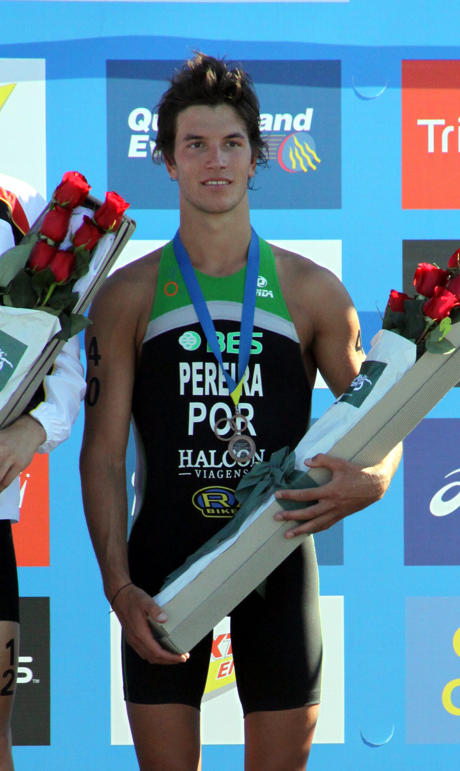 Joao Pereira Triathlon 2009 World Championships Gold Coast (U23)